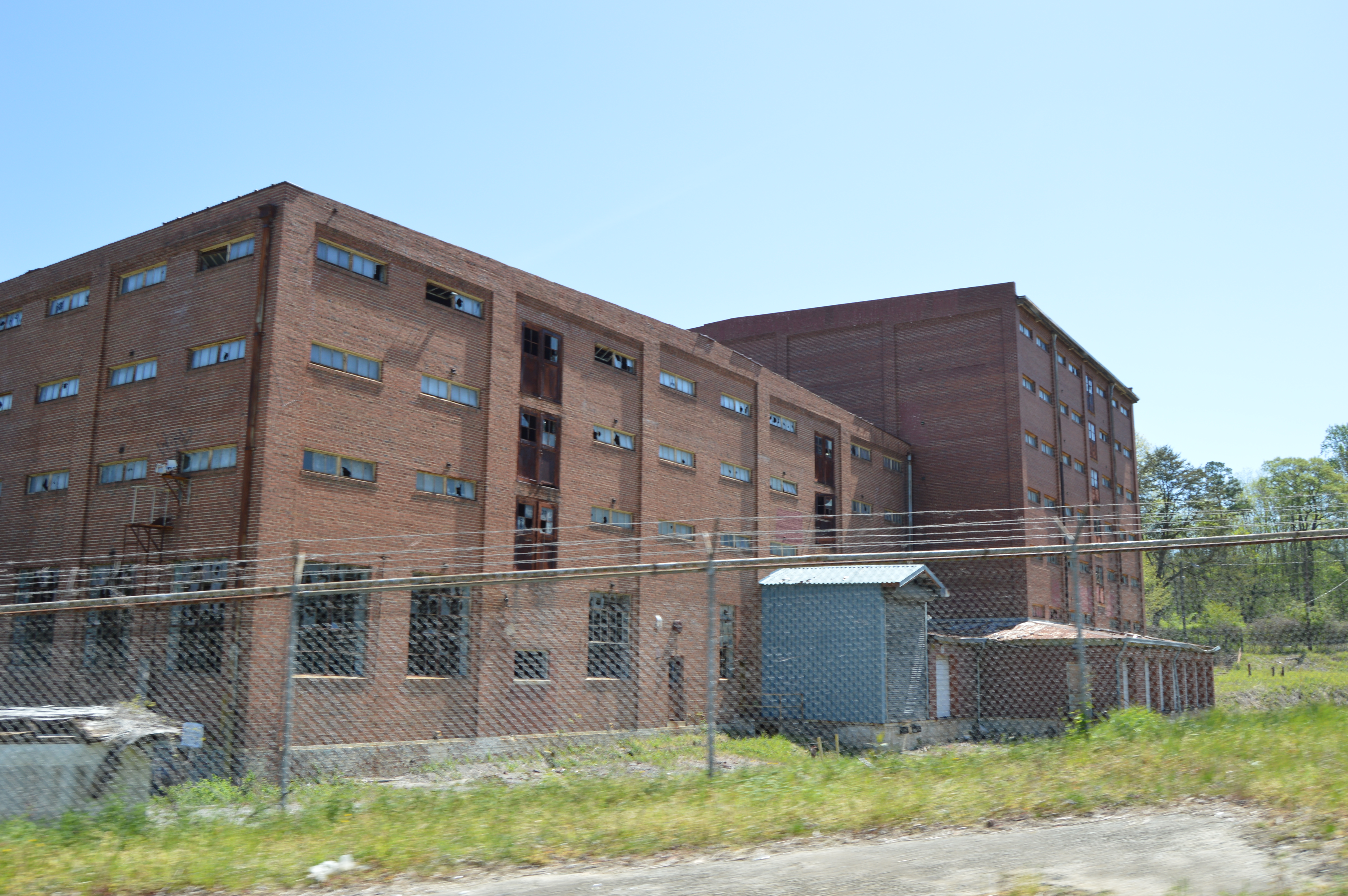 Front of the former Proximity Print Works, located at 1700 Fairview Street in Greensboro, North Carolina, United States. Built in 1913, it is listed on the National Register of Historic Places.